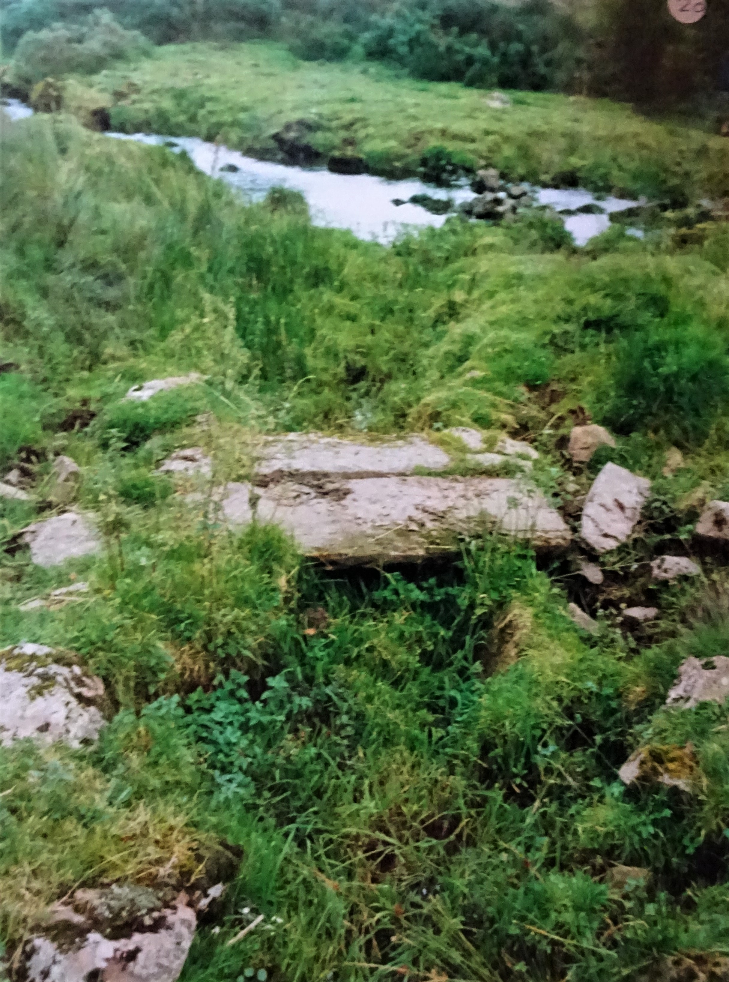 Coldstream Mill, Beith, North Ayrshire. The water source and marker. When the millpond water reached this footbridge enough water for a day's milling was in the mill pond.